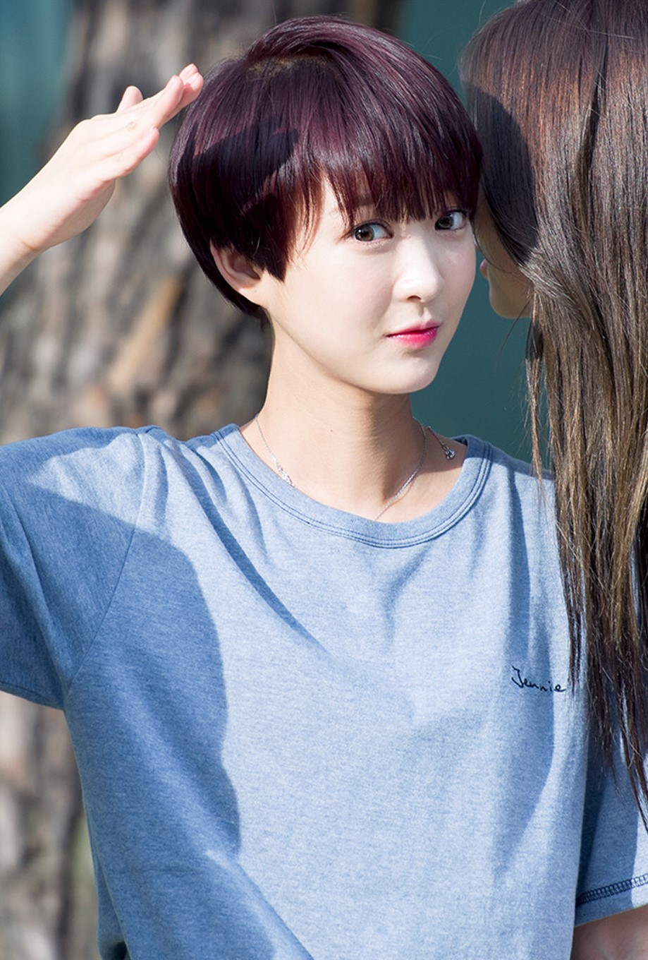 Seo Hye-lin at a fanmeet on Show Music Core on July 2, 2016.